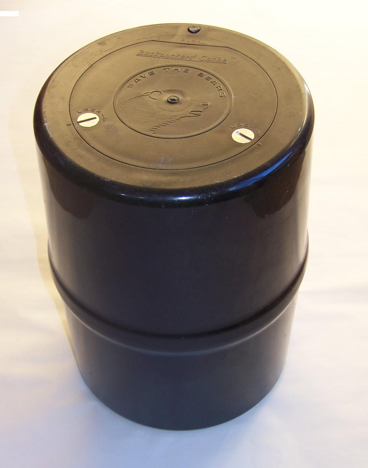 A photo of a bear resistant food storage canister, manufactured by Garcia Mfg. of Visalia, CA, USA. The canister is 12" (30 cm) tall, 8" (20 cm) in diameter, and weighs 44 oz. (1250 grams).